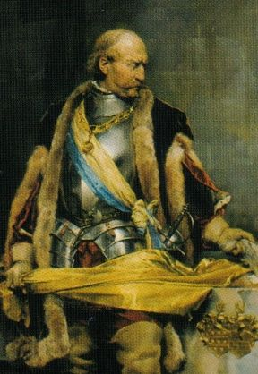 Duke Karl Insulting the Corpse of Klas Fleming (detail)